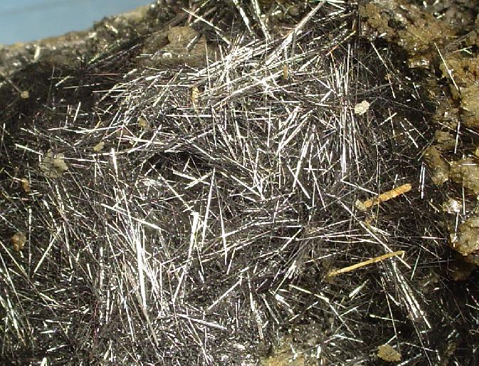 Boulangerite, Siderite Locality: Vojtěch Mine (Adalbert Mine; Adalbert Maria Mine), Březové Hory deposit, Březové Hory (Birkenberg), Příbram, Central Bohemia Region, Bohemia (Böhmen; Boehmen), Czech Republic (Locality at ) Size: 10.0 x 5.5 x 4.9 cm. Boulangerite is extremely rare from the famous mines at Pribram. This very rich, old-time, sculptural, cabinet specimen is richly covered with nests of metallic, iridescent, hair-like needles of boulangerite to about 1.4 cm. The clusters of lustrous, tiny, brown, siderite crystals are a very nice accent. The matrix is layered sulfides and quartz. Ex. Bohemia Royal Museum and Joseph Vajdak Collections with labels. Vajdak is a noted Pribram collector and both labels indicate that the piece was collected in 1860 from the Vojtech Mine. This ancient mine was opened as the Adalbert Mine in 1779, according to an accompanying list.